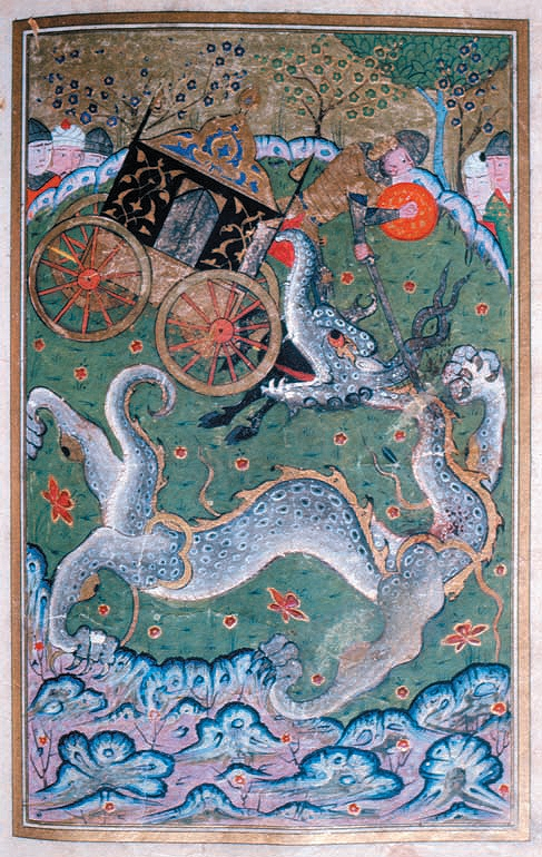 Iskender kills the dragon in Sind, Miniature from a copy of Ahmadi's İskender-nāme, middle of the 15th century, written and painted in Edirne, now in Biblioteca Nazionale Marciana, Venezia